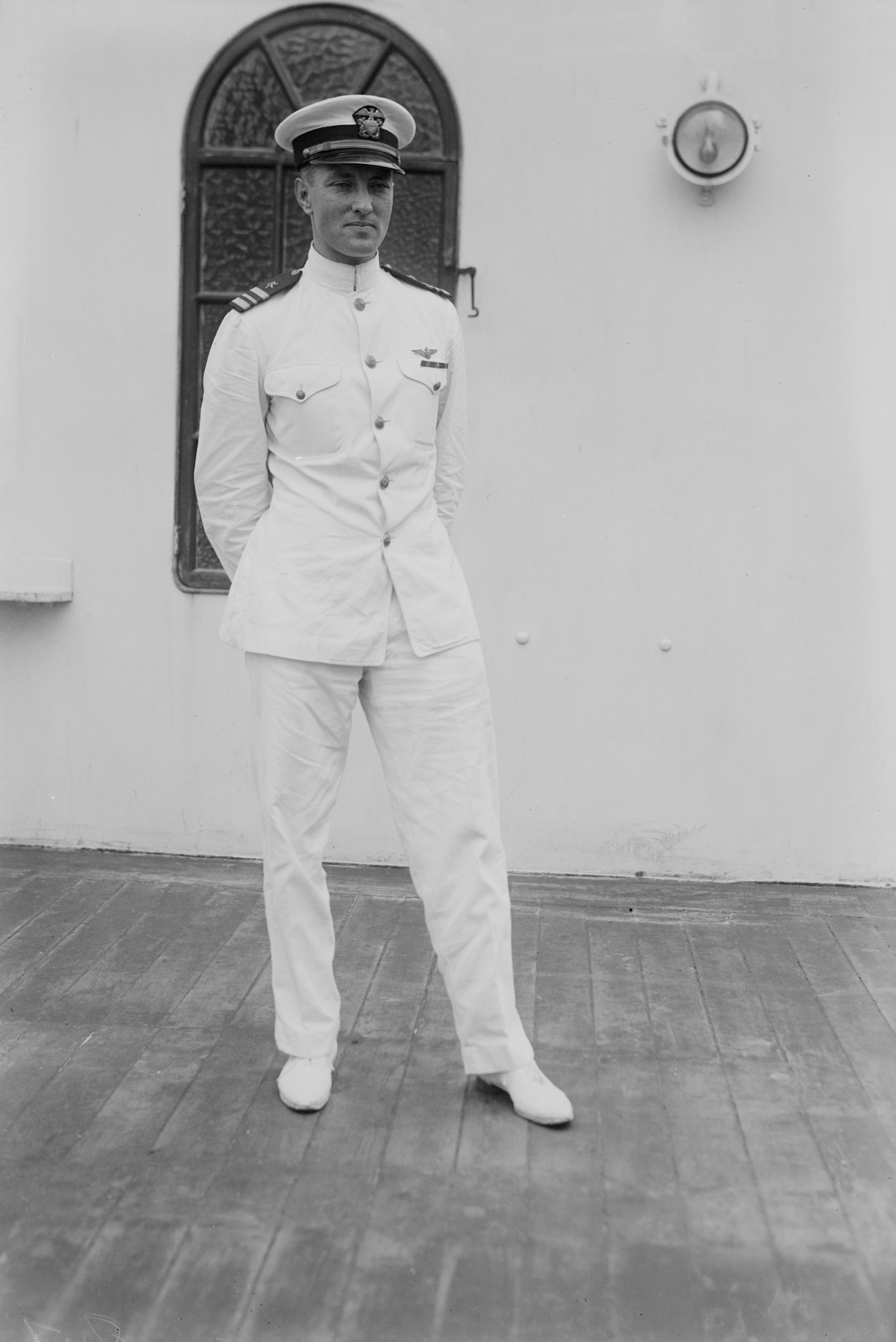 U.S. Navy Lt. Com. Richard E. Byrd in 1921.